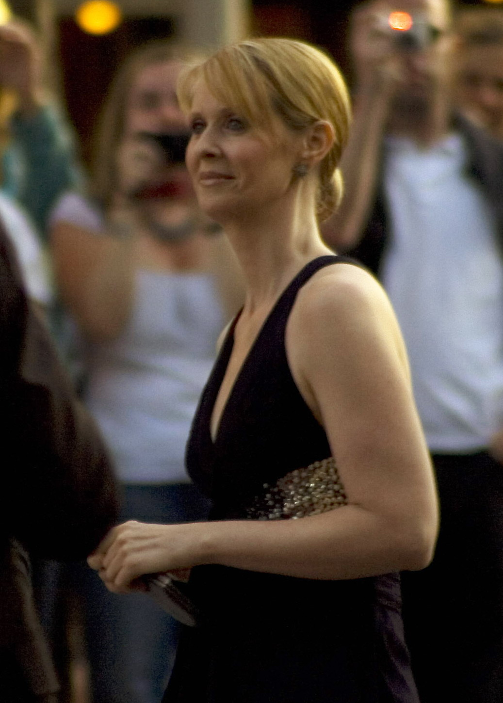 Cynthia Nixon - Premiere "Sex and the City", Berlin